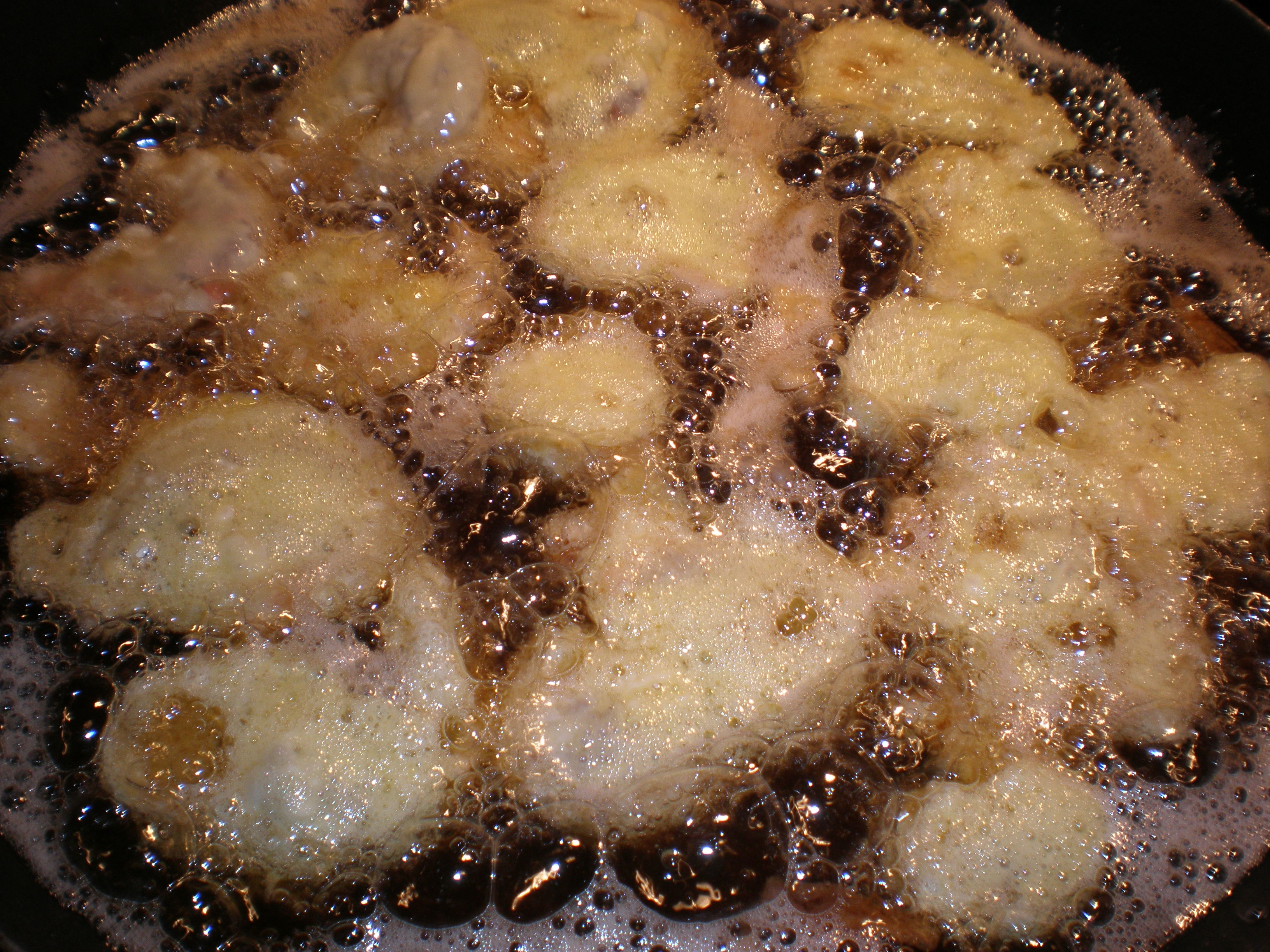 Camaron rebusado (fried breaded prawns) being fried.